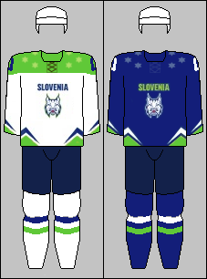 The home and away jerseys of the Slovenian national ice hockey team used from the 2015 IIHF World Championship.